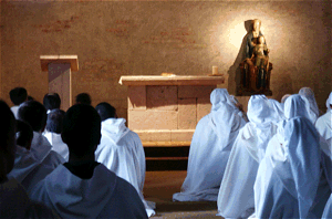 vespers of FMJ